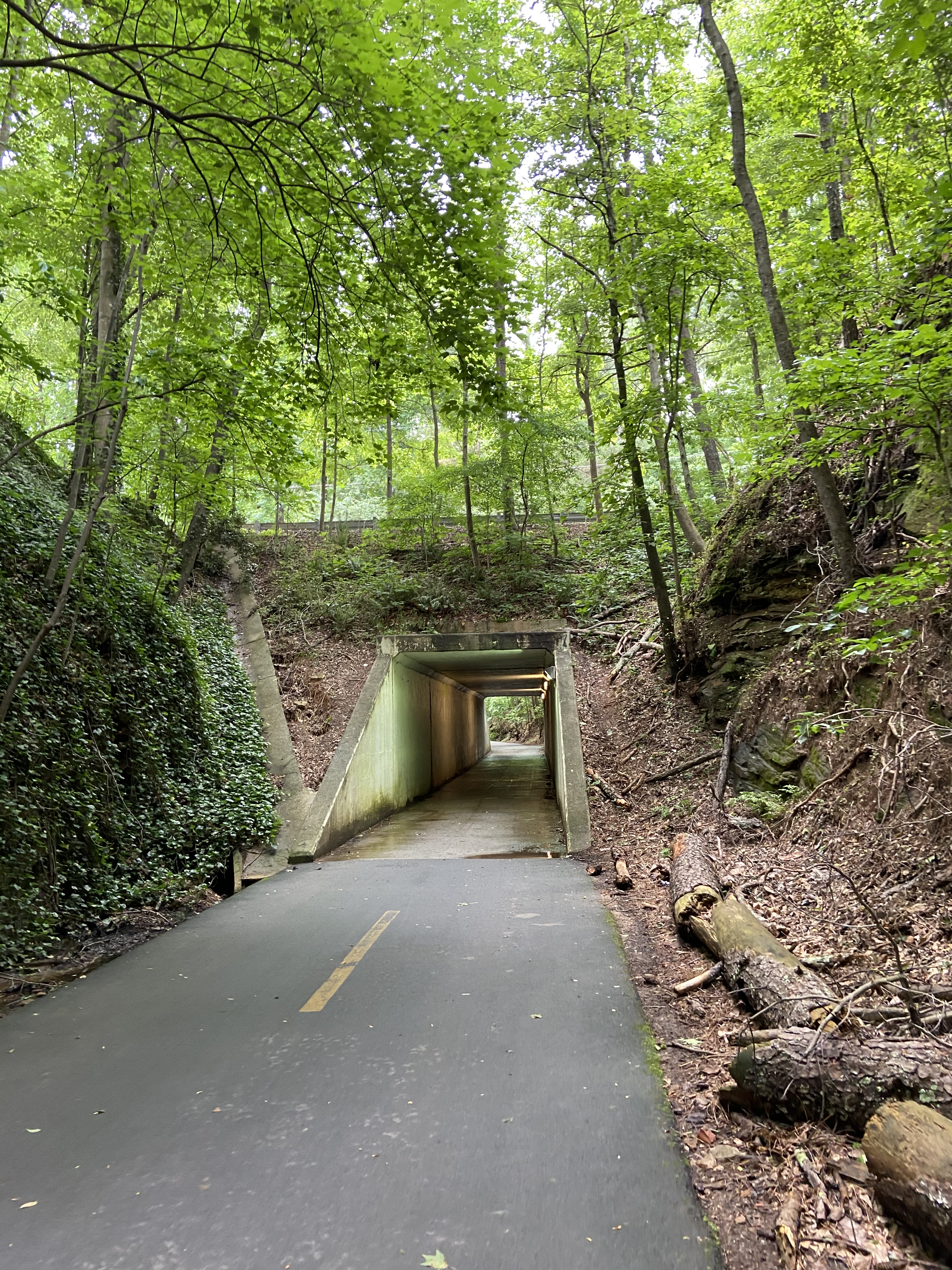 One of the Silver Comet Trail's connectors, located at South Hurt Road in Mableton, GA.